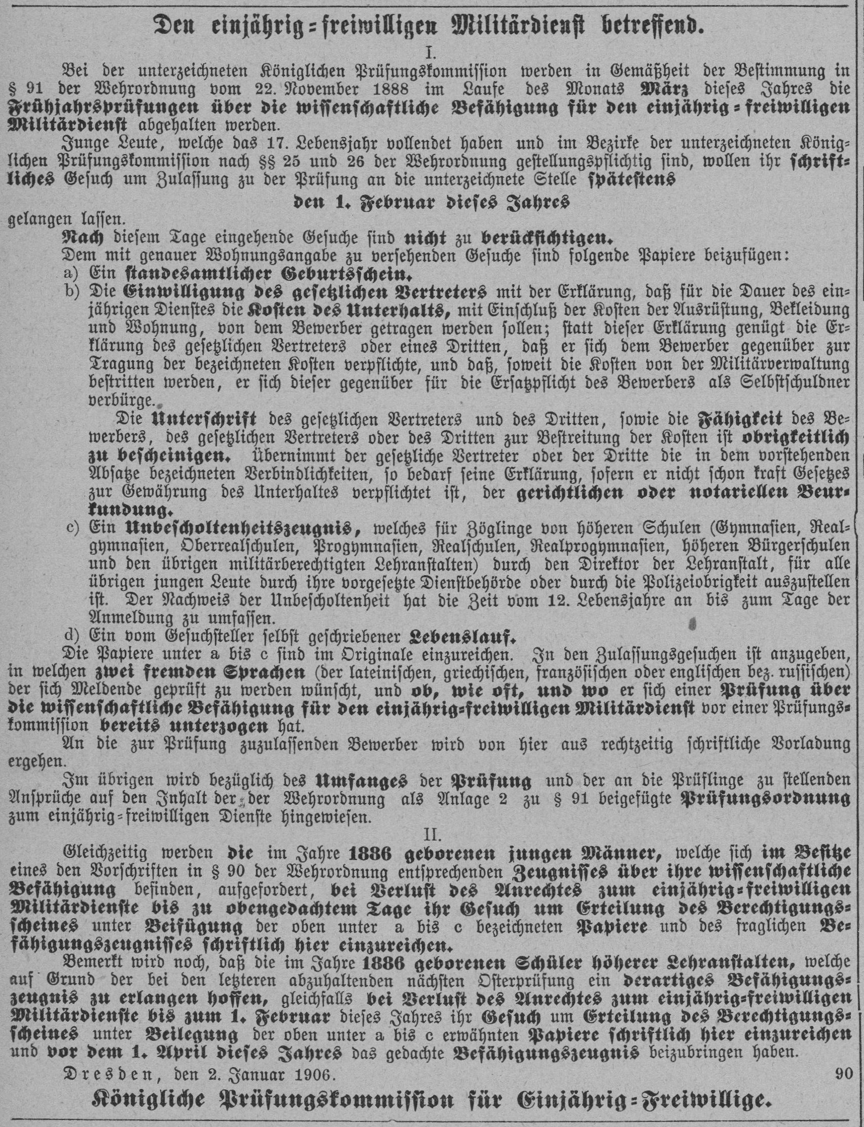 Scan from the Dresdner Journal, 1906